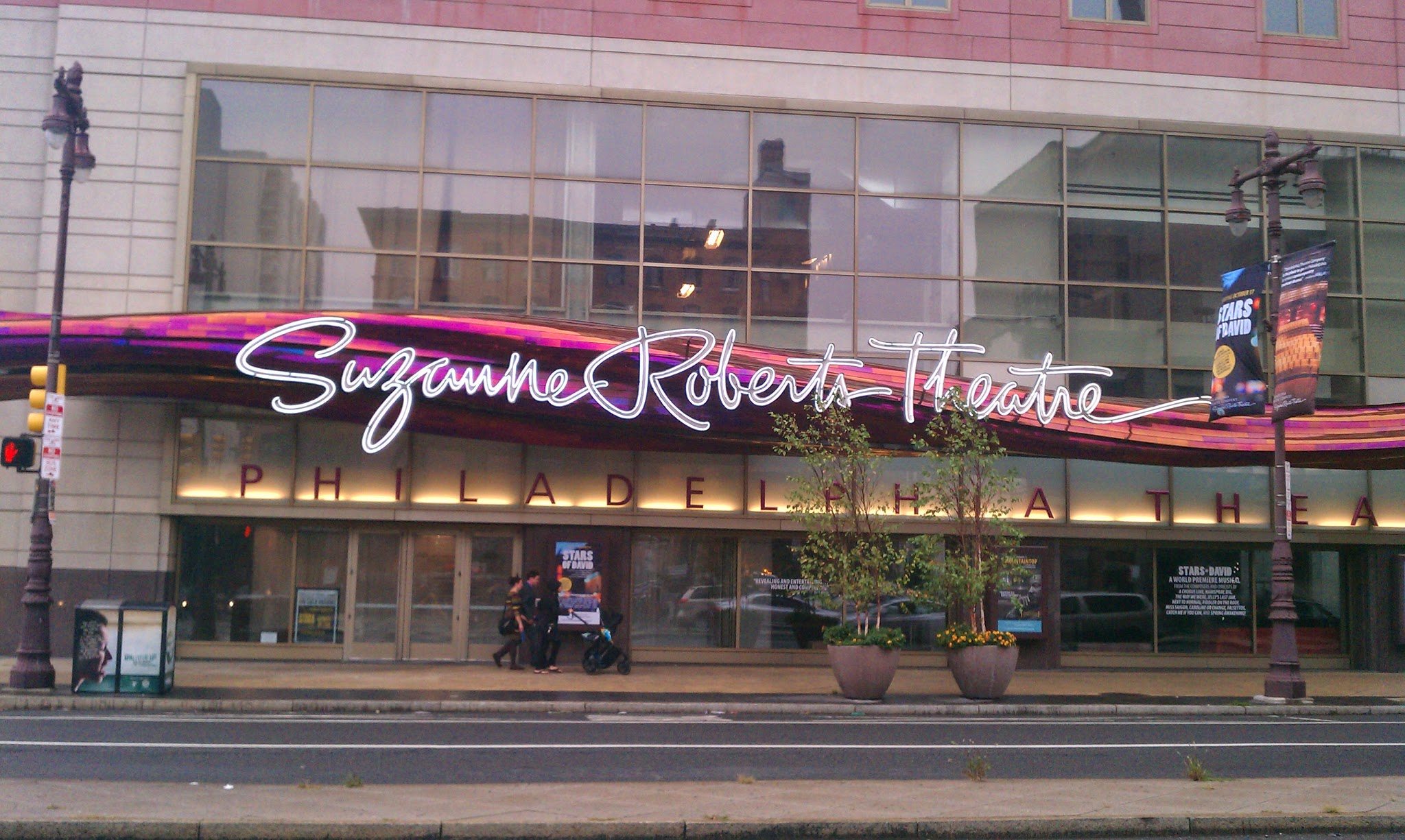 The Suzanne Roberts Theatre at 480 s. Broad Street Philadelphia, PA.